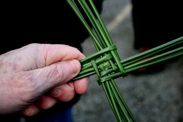 St Brigids Cross